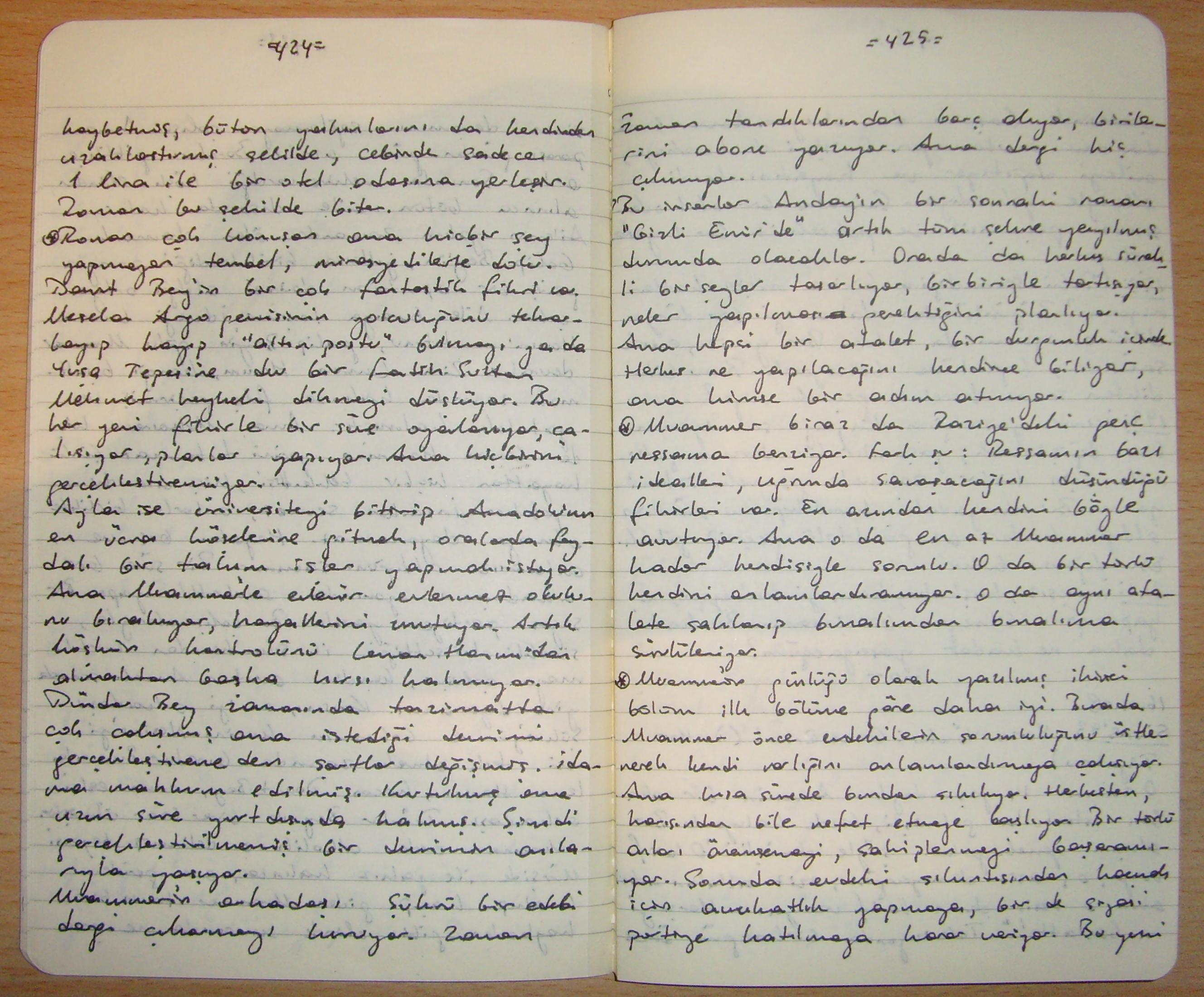 Notes in Turkish in a Moleskine notebook